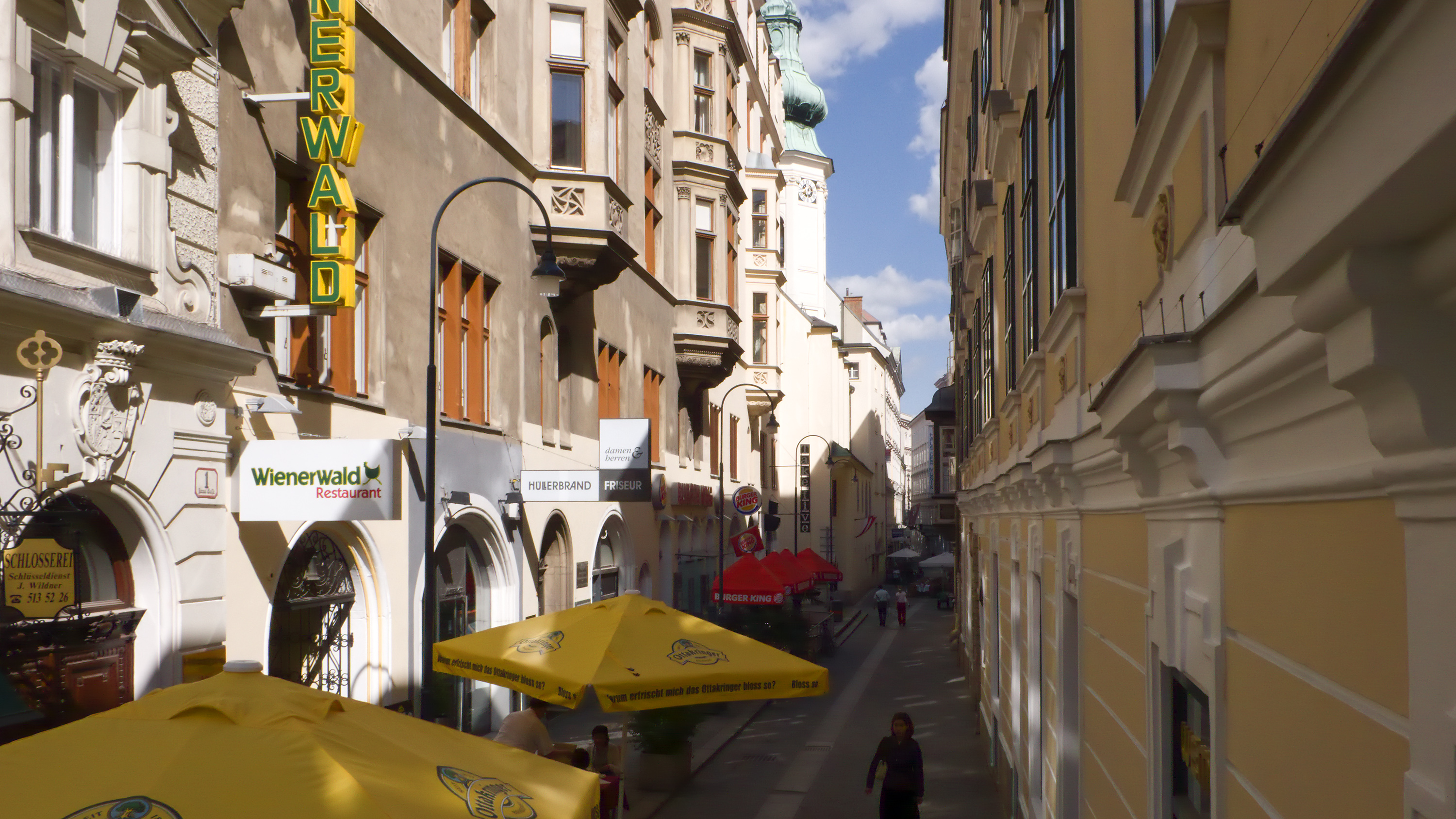 Annagasse in Vienna Inner City, Haus Nr.3a, St. Annahof (Wien)